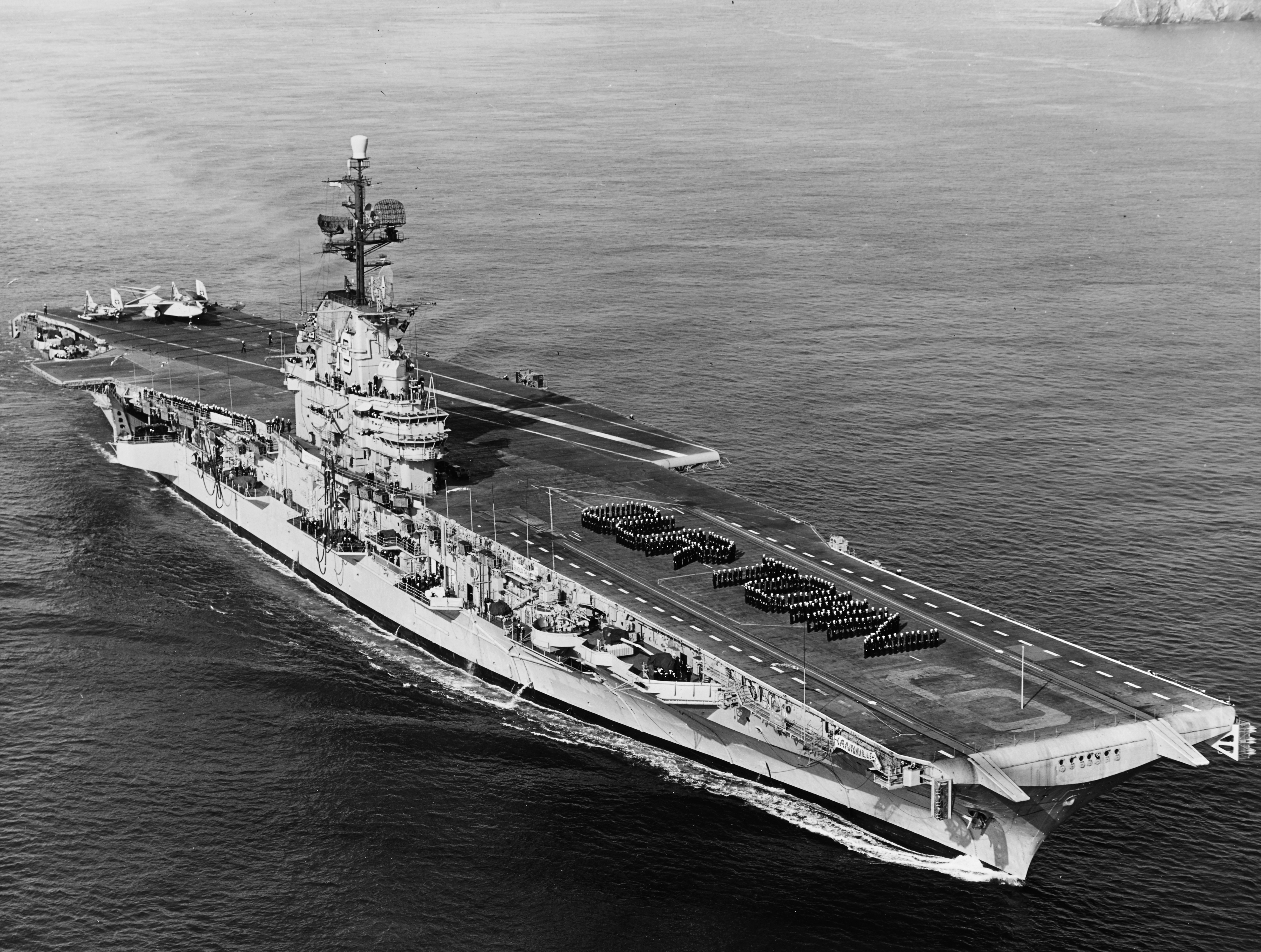 The U.S. Navy aircraft carrier USS Hancock (CVA-19) in San Francisco Bay, California (USA), in September 1957. Her crew is spelling out "Our Town" on her flight deck. Hancock, with assigned Air Task Group 2 (ATG-2), was deployed to the Western Pacific from 6 April to 18 September 1957.